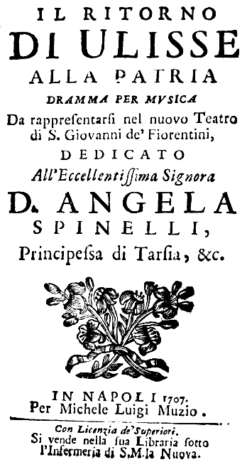 Giuseppe Porsile - Il ritorno di Ulisse alla patria - titlepage of the libretto - Neapel 1707